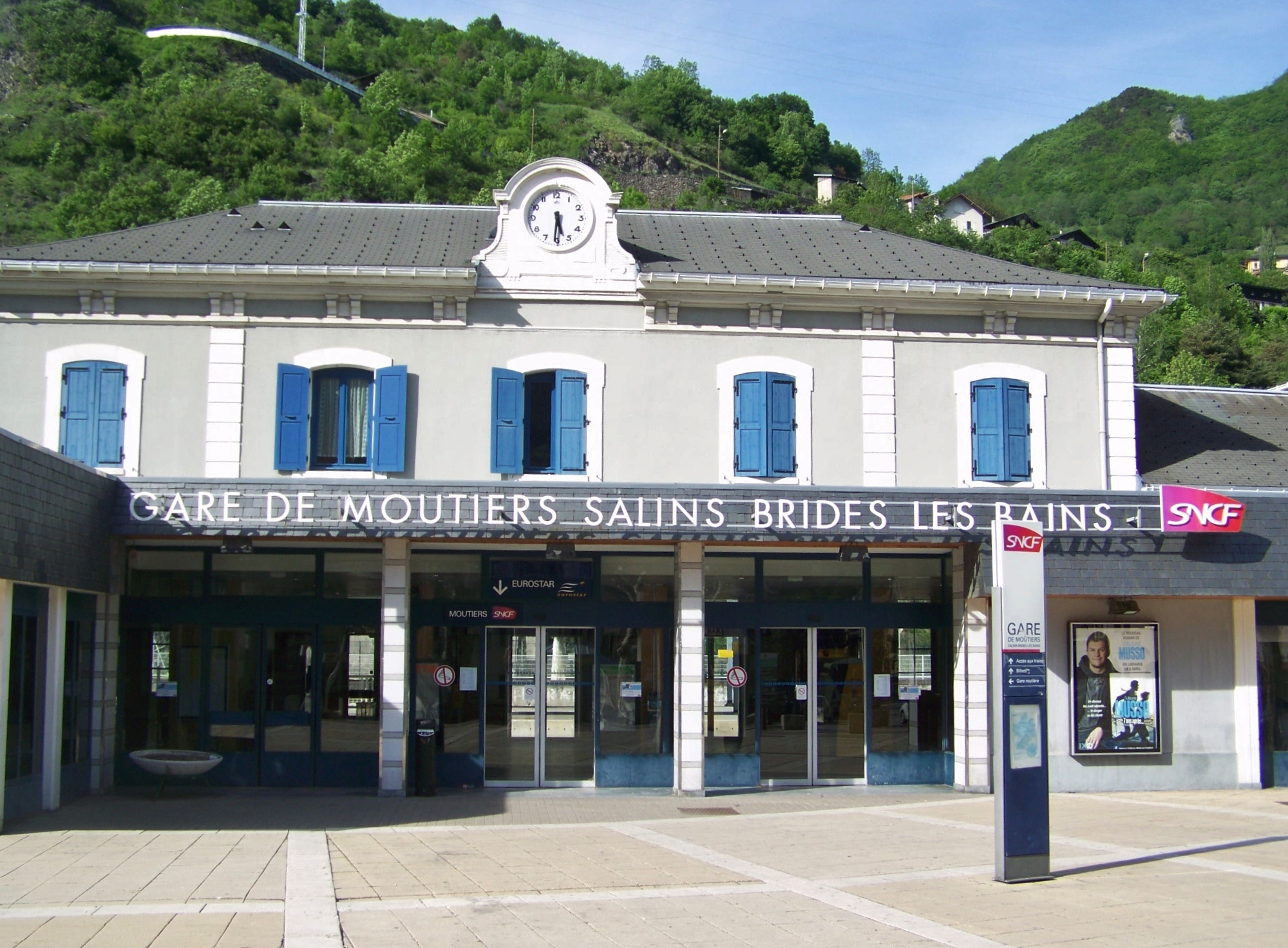 Front of the French station of Moûtiers-Salins-Brides-les-Bains, in Savoie.